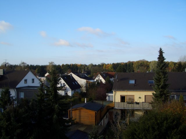 View over the rooftops of Bergisch Gladbach Hand, Germany